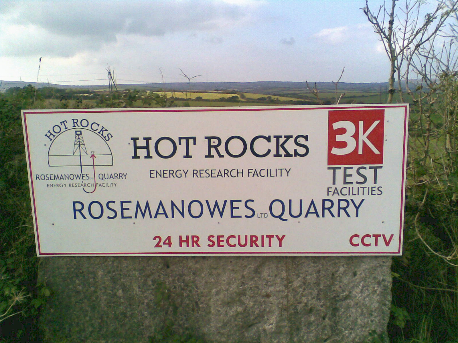 Sign to Rosemanowes Quarry, Hernis, Cornwall, site of the Hot Dry Rocks project